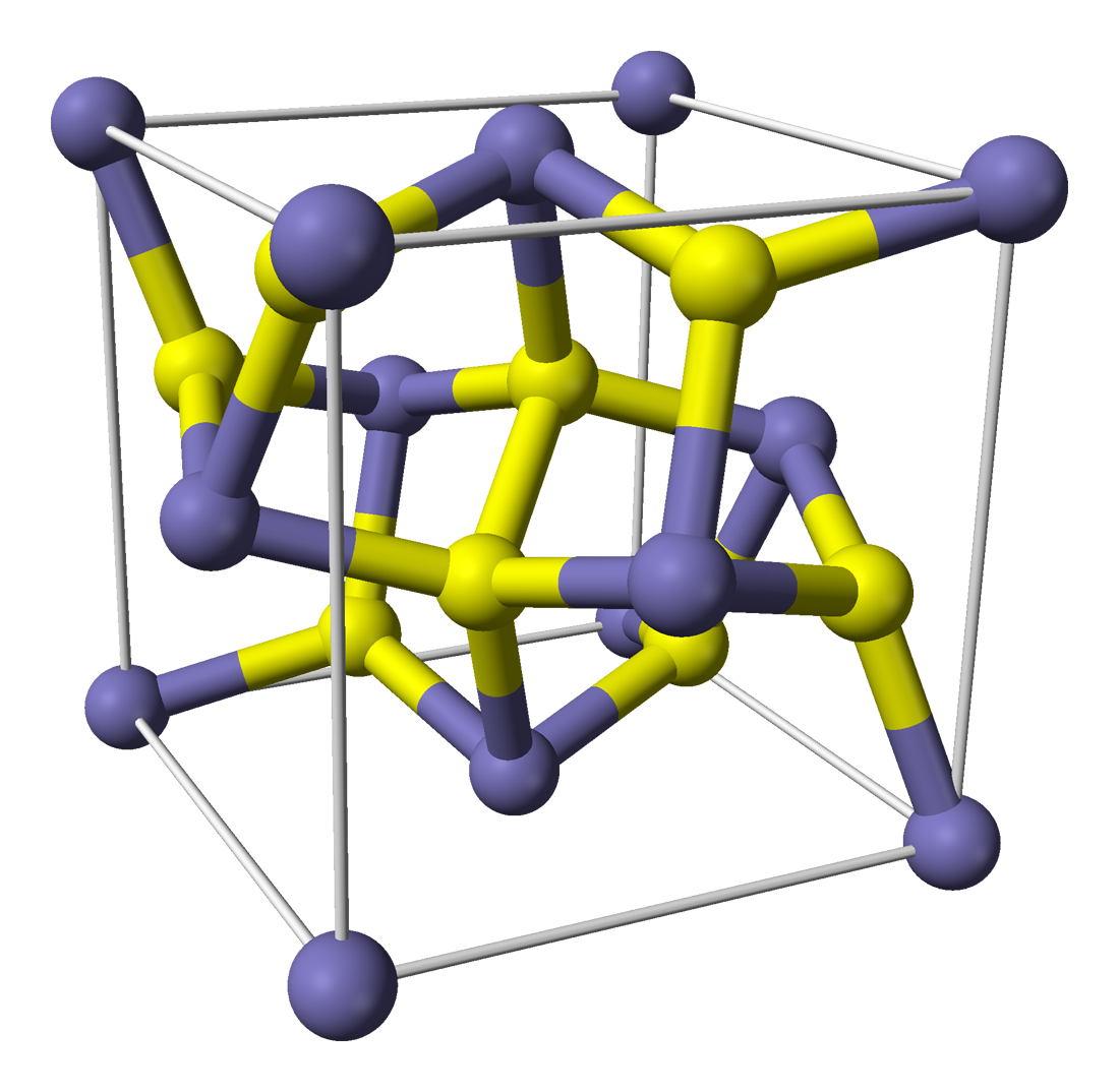 Ball-and-stick model of the unit cell of pyrite (iron(II) disulfide, FeS2)